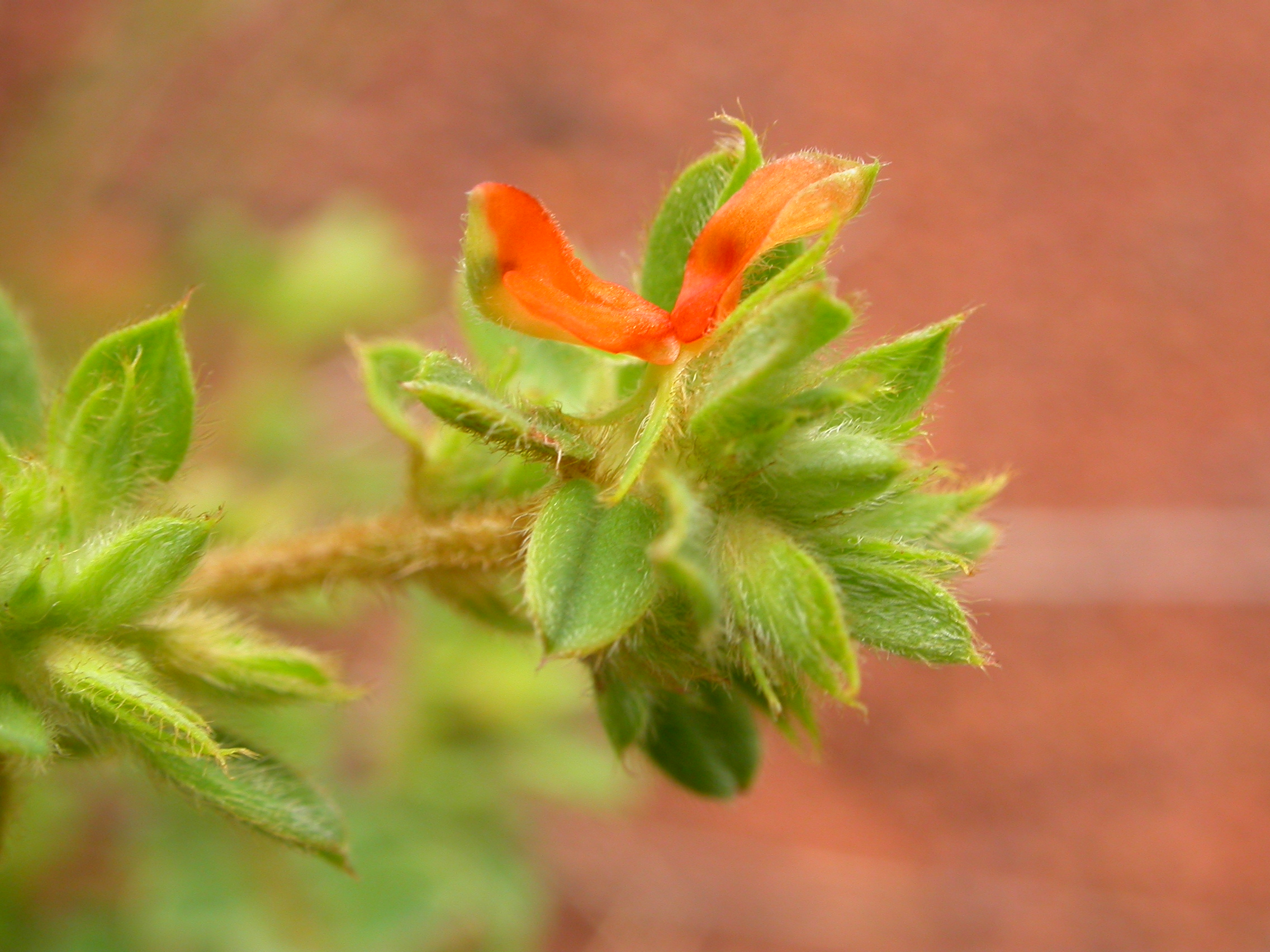 flowering Indigofera bracteolata in SW Burkina Faso